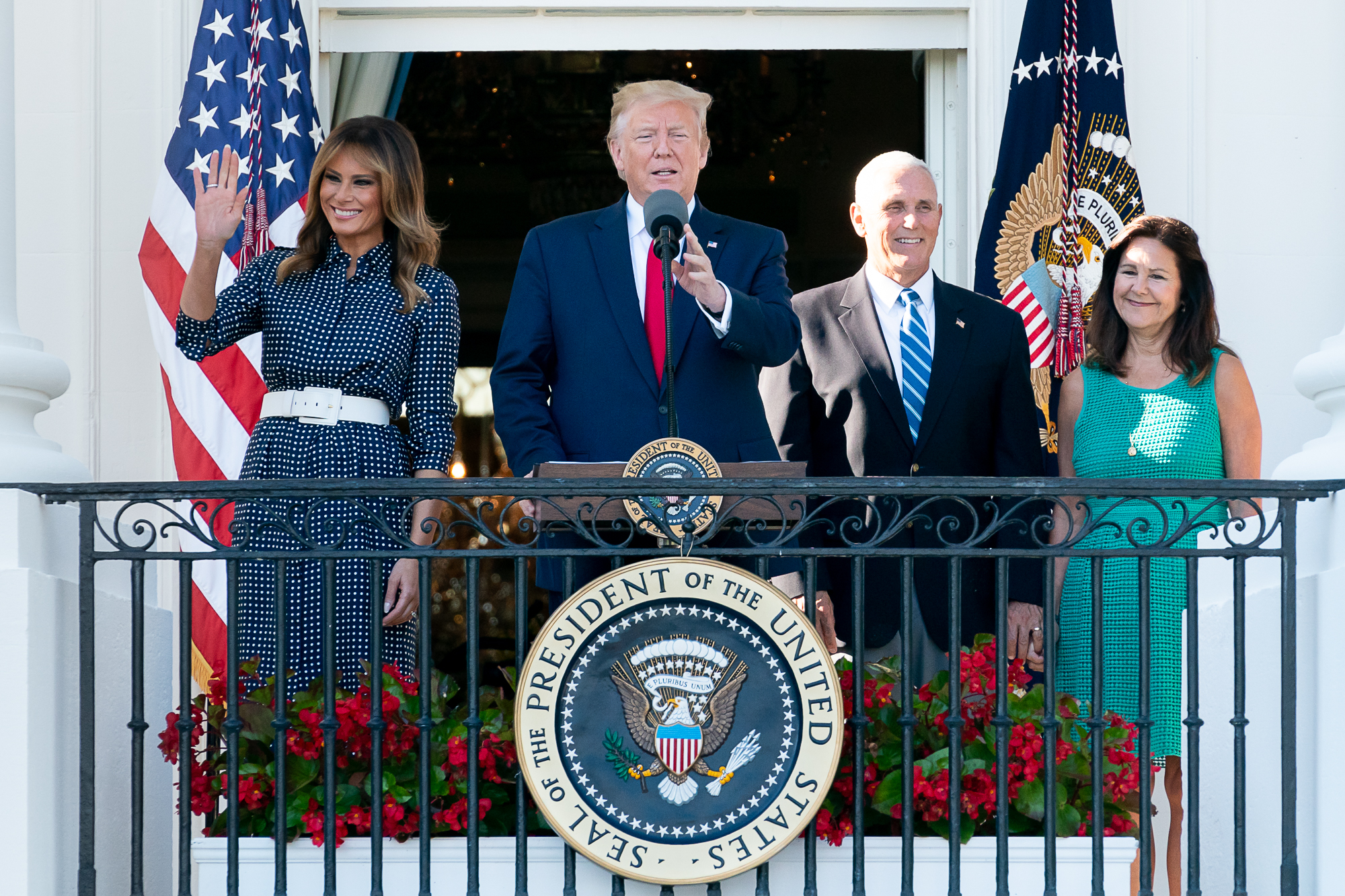 President Donald J. Trump, joined by First Lady Melania Trump, Vice President Mike Pence and Second Lady Karen Pence, delivers remarks during the Congressional Picnic Friday, June 21, 2019, on the Blue Room Balcony of the White House. (Official White House Photo by Andrea Hanks)